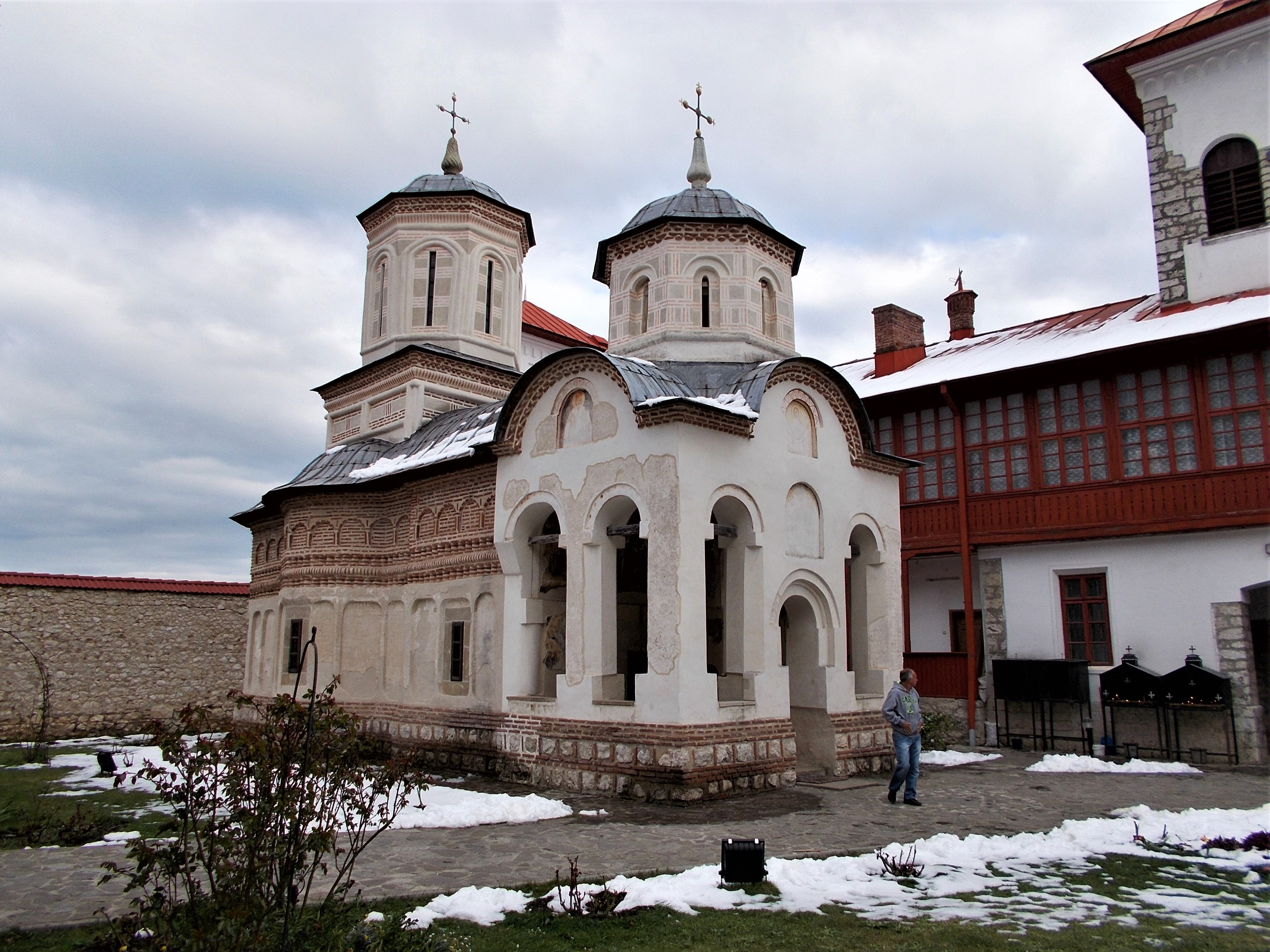 Arnota Monastery, Vâlcea County, Romania